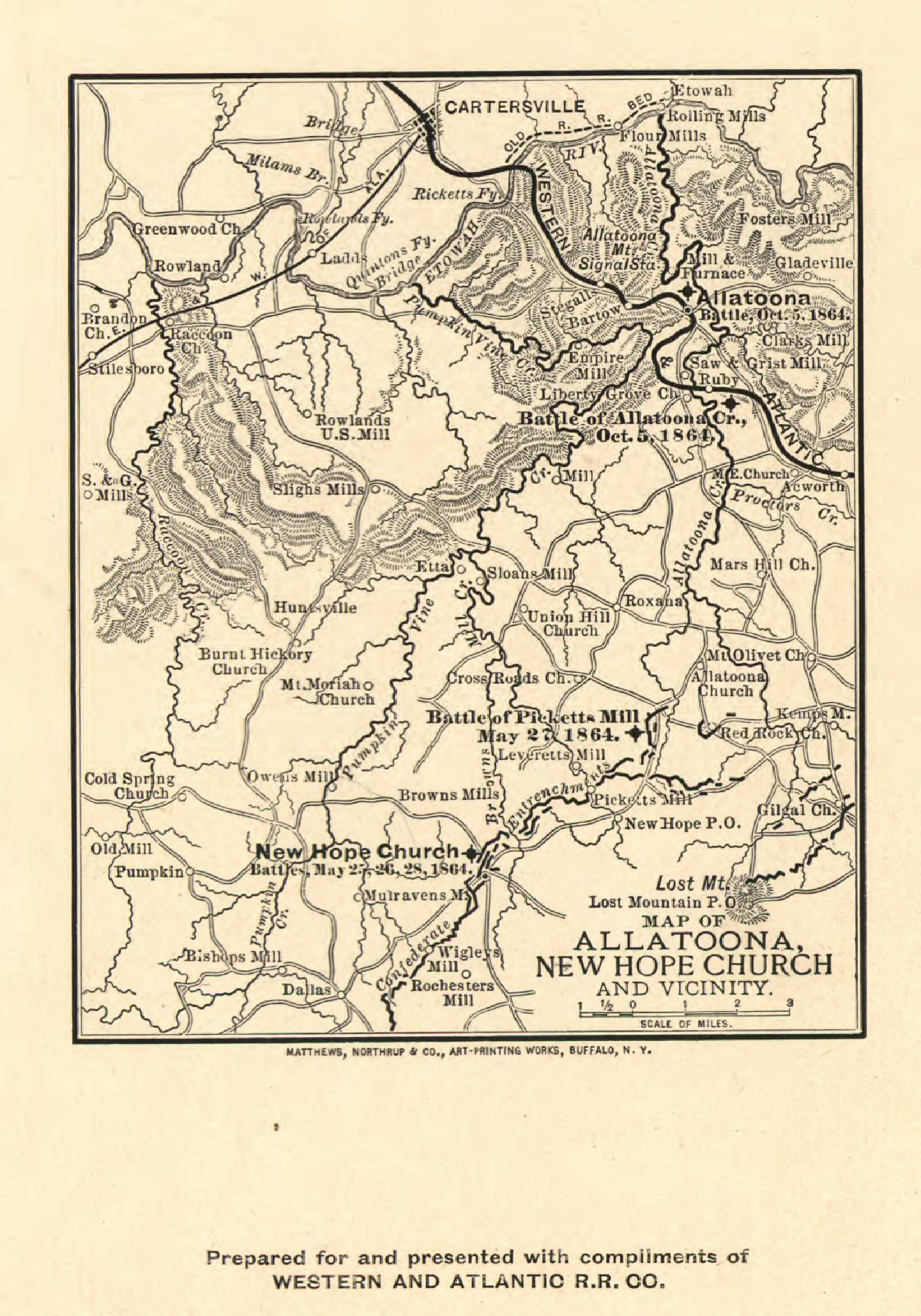 Scale ca. 1:280,000. LC Civil War Maps (2nd ed.), 132.5 Shows location of battles of Allatoona, Allatoona Creek, Picketts Mill, and New Hope Church, roads, railroads, Confederate entrenchments, towns, drainage, and relief by hachures. Description derived from published bibliography. Available also through the Library of Congress web site as raster image.